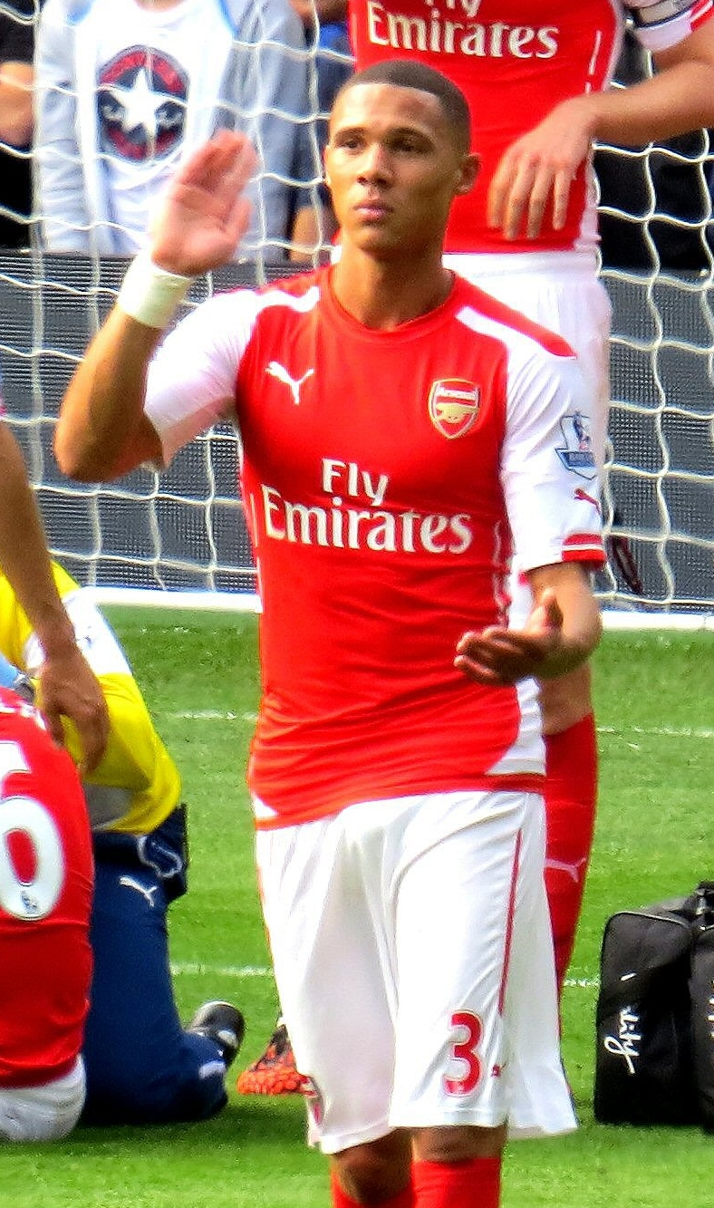 Kieran Gibbs playing for Arsenal against Chelsea at Stamford Bridge, Fulham on 5 October 2014